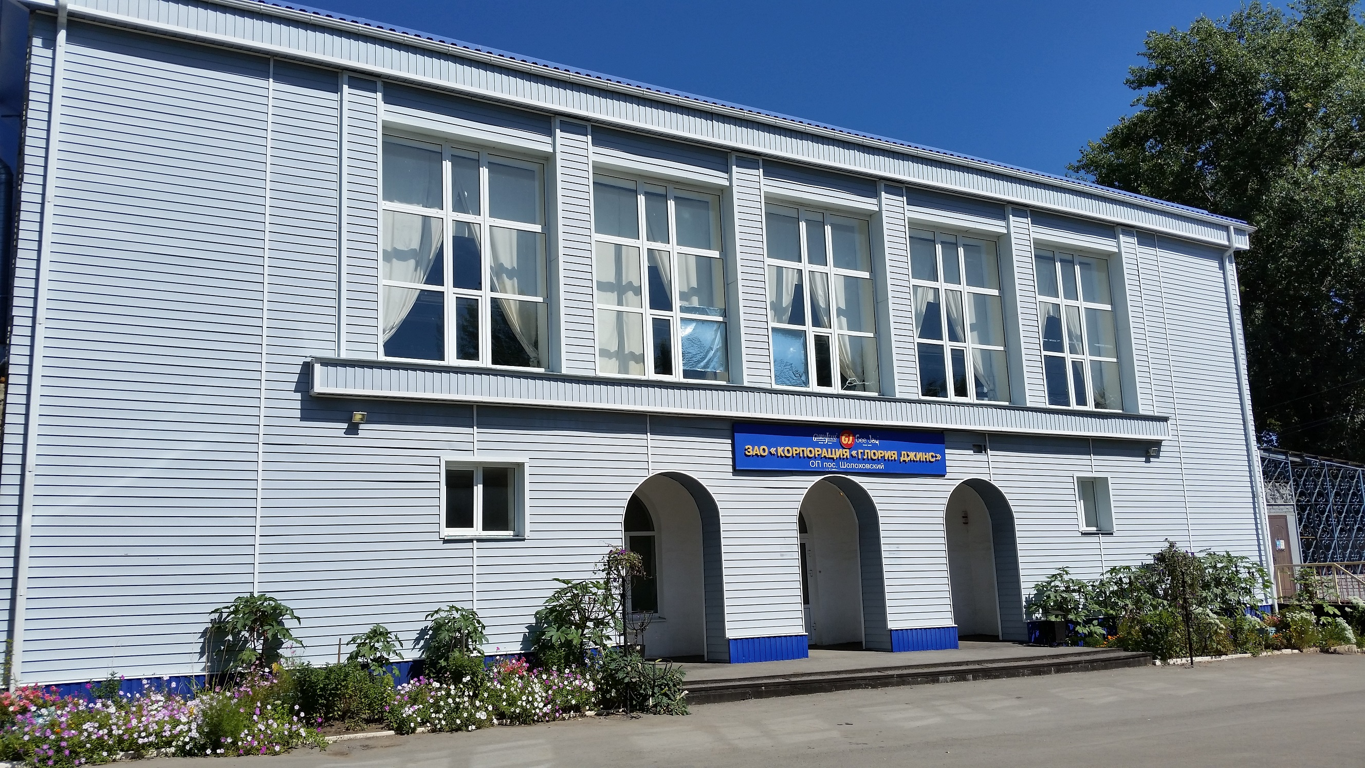 garment factory